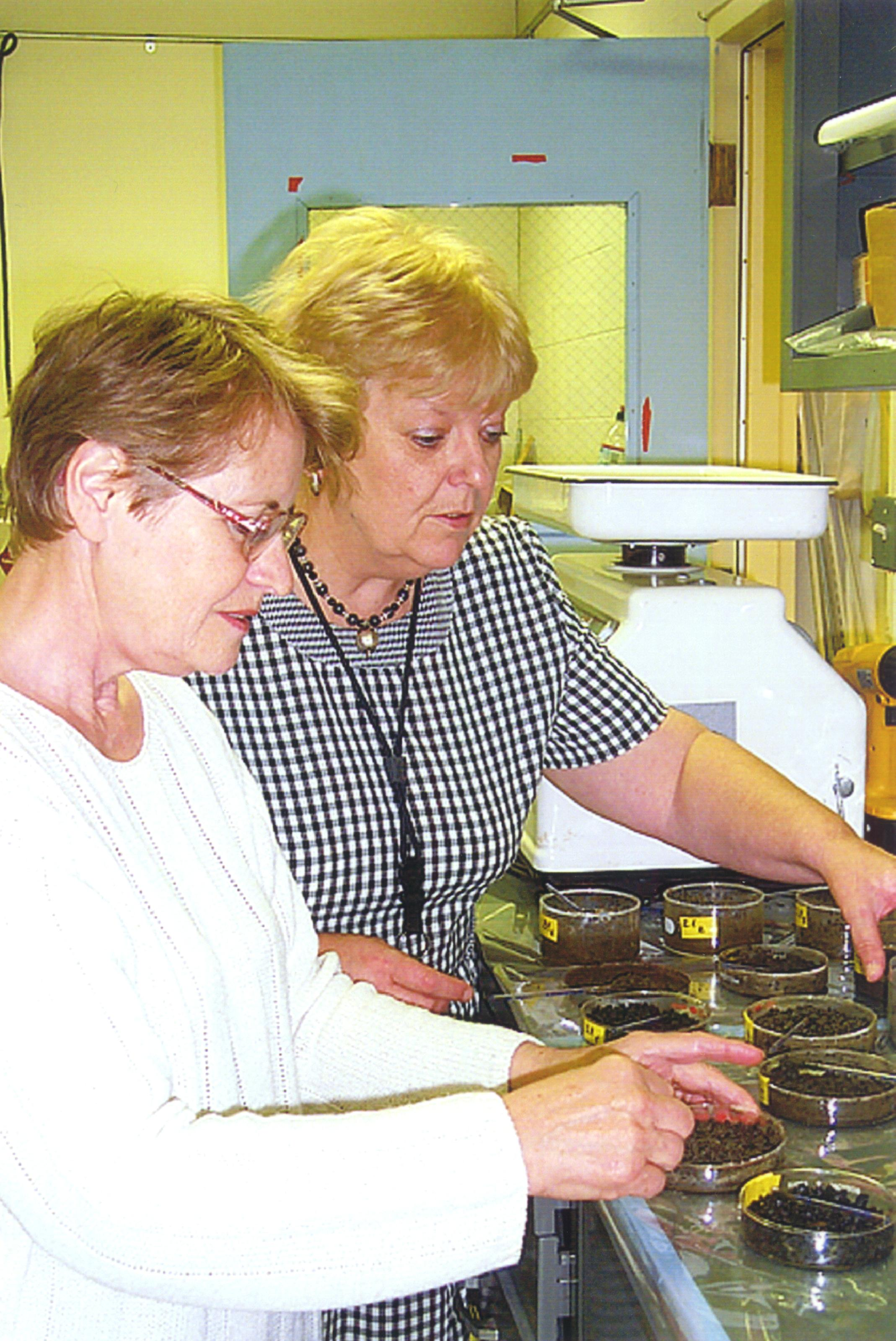 Russian scientist Valentina Murygina and Pacific Northwest National Laboratory, scientist Evgeguenia Rainina prepare samples of soil mixed with oil to test a microbe for its ability to clean up contaminated soil.